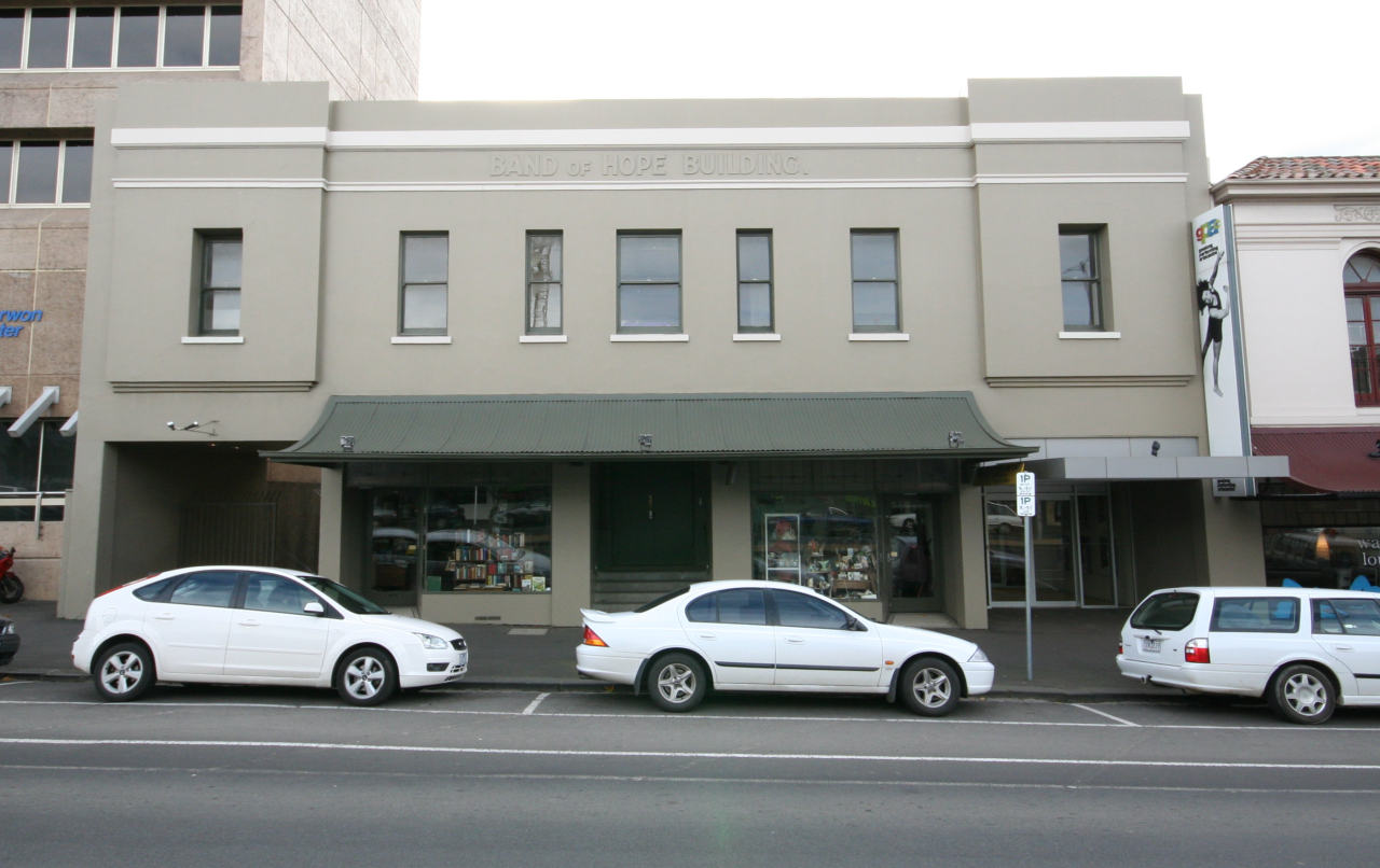 Band of Hope building on Ryrie Street. Formerly the 'Steeple Church', now part of Geelong Performing Centre - Geelong Victoria Australia